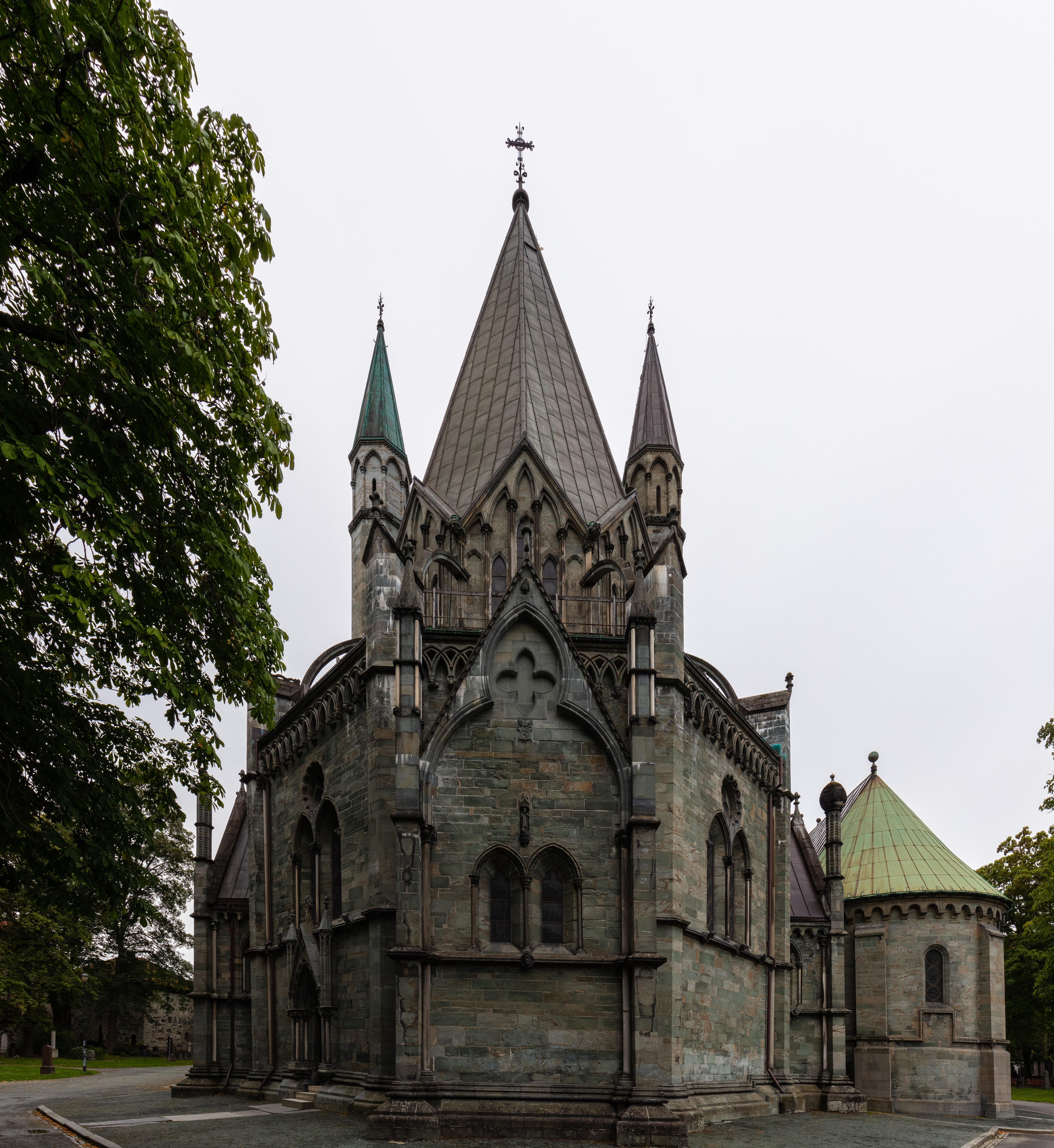 Nidaros Cathedral, Trondheim, Norway